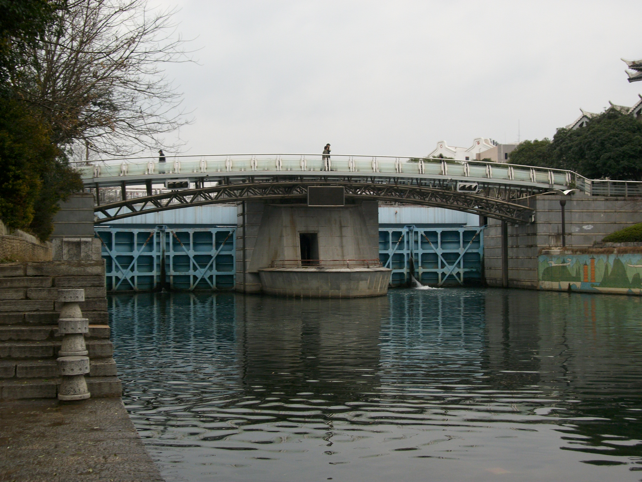 The ship lock in Chuntian Lake.